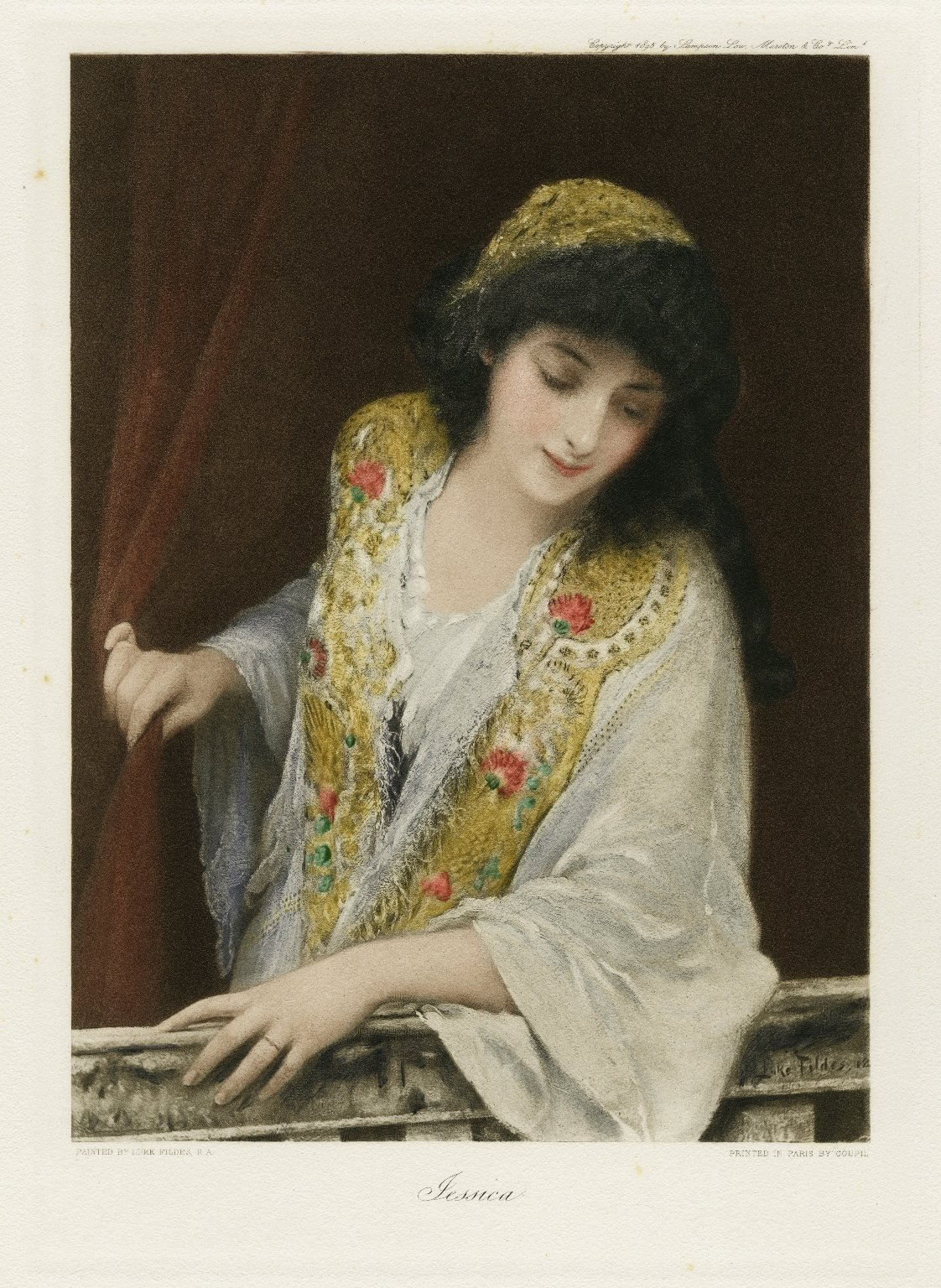 Jessica (1886). Engraved for The Graphic Gallery of Shakespeare's Heroines (1888) after a painting in oil on canvas by Luke Fildes.